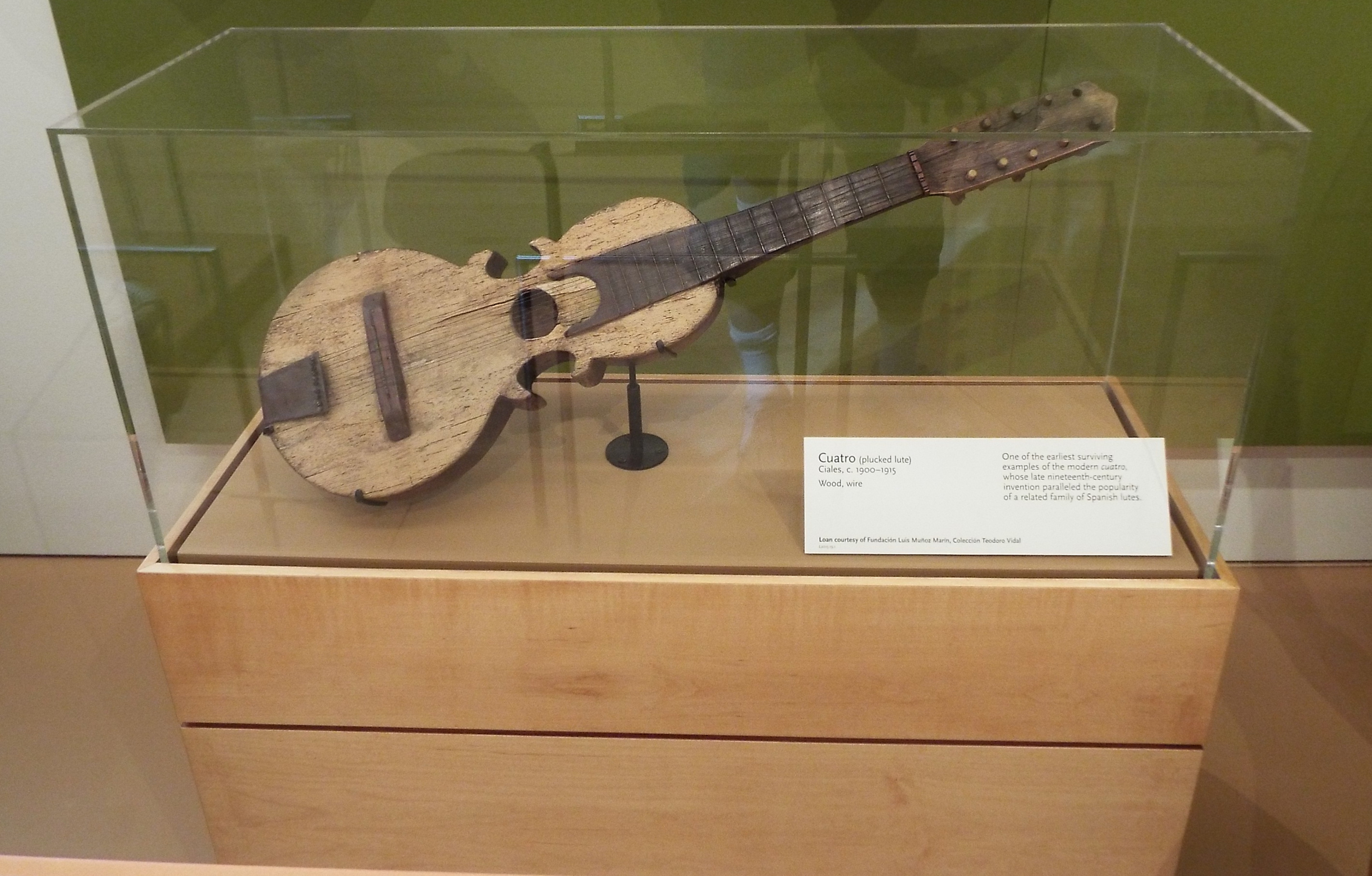 A Cuatro, (c. 1900 - 1915) from Ciales, Puerto Rico on exhibit in the Musical Instrument Museum in Phoenix.